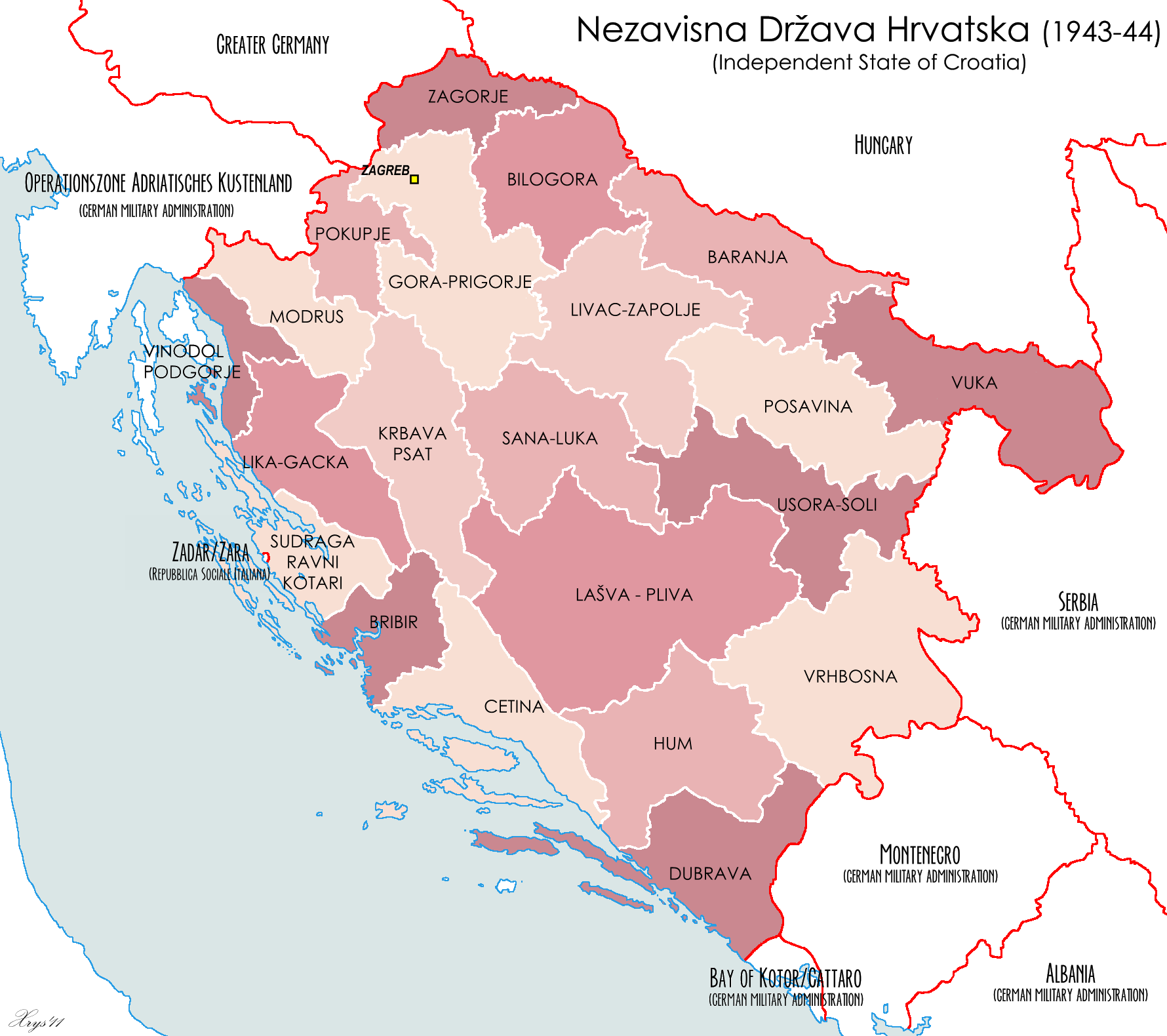 Administrative Map of the Independent State of Croatia (Nezavisna Država Hrvatska), 1943-45